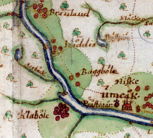 Part of Johan Persson Gedda's map of Umeå parish from 1661. In the middle flows the river Umeälven. On the north side of the river are the villages Brännland, Kåddis, Baggböle and Umeå church (now: Backen church) near the village of Hiske. On the south side is the village Klabböle. Red dots are tax-paying farms. In the right upper corner you can see Klockarbäcken and Prästsjön.